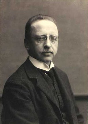 Danish pharmacist, author, and playwright Carl Otto Valdemar Benzon (1856-1927)